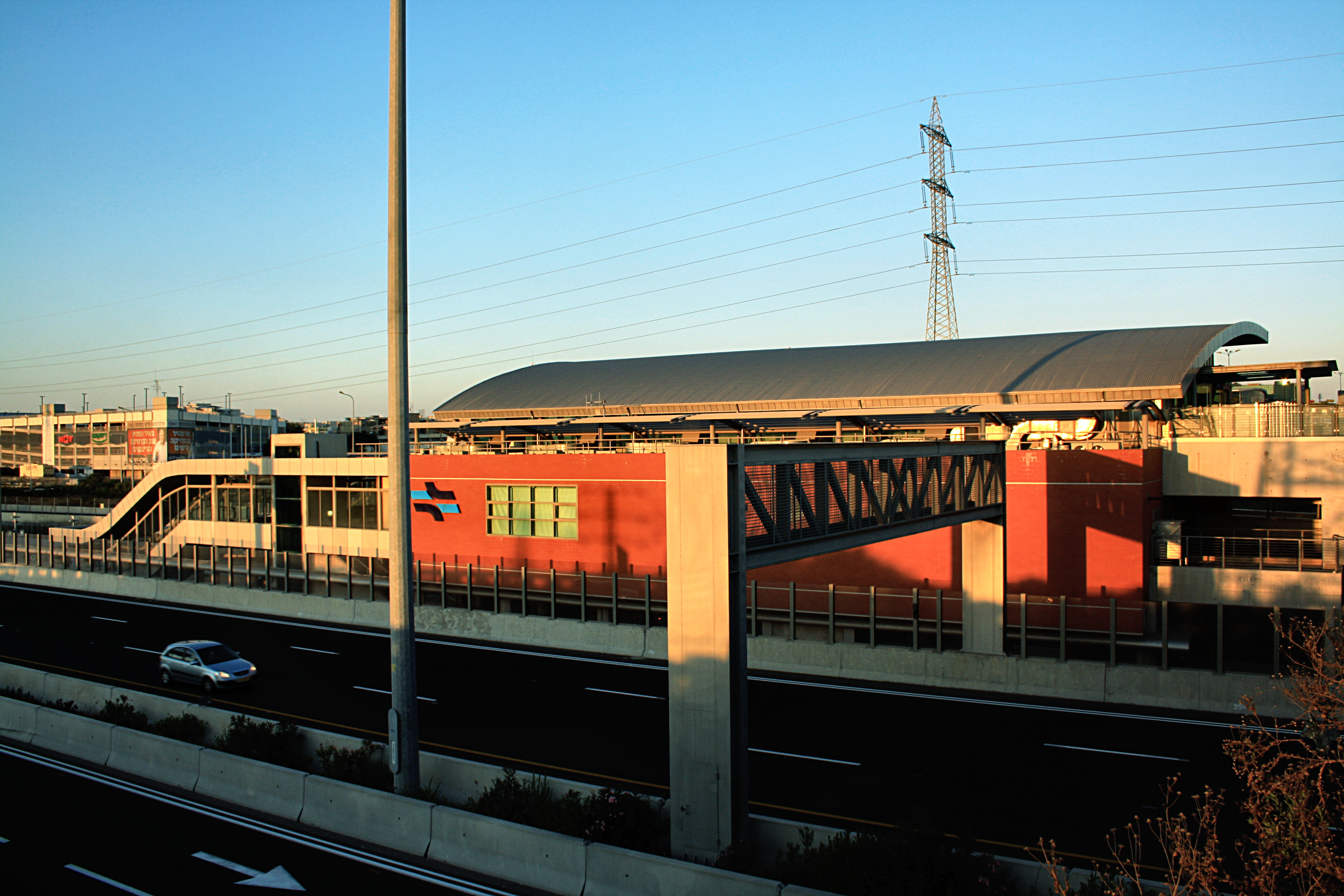 Rishon LeZion Moshe Dayan Railway Station.